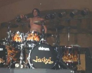 Chris Worley of Jackyl performing at The Cotillion Ballroom in Wichita, Kansas on October 29, 2011